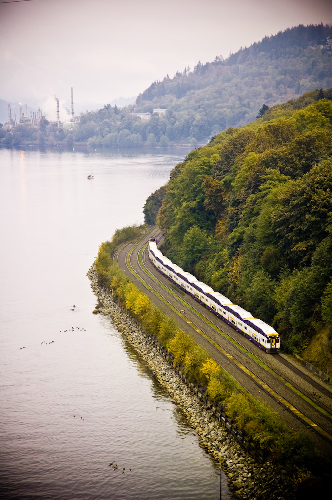 Eastbound West Coast Express commuter train in Vancouver, British Columbia, Canada.